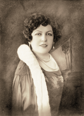 Adma Jafet